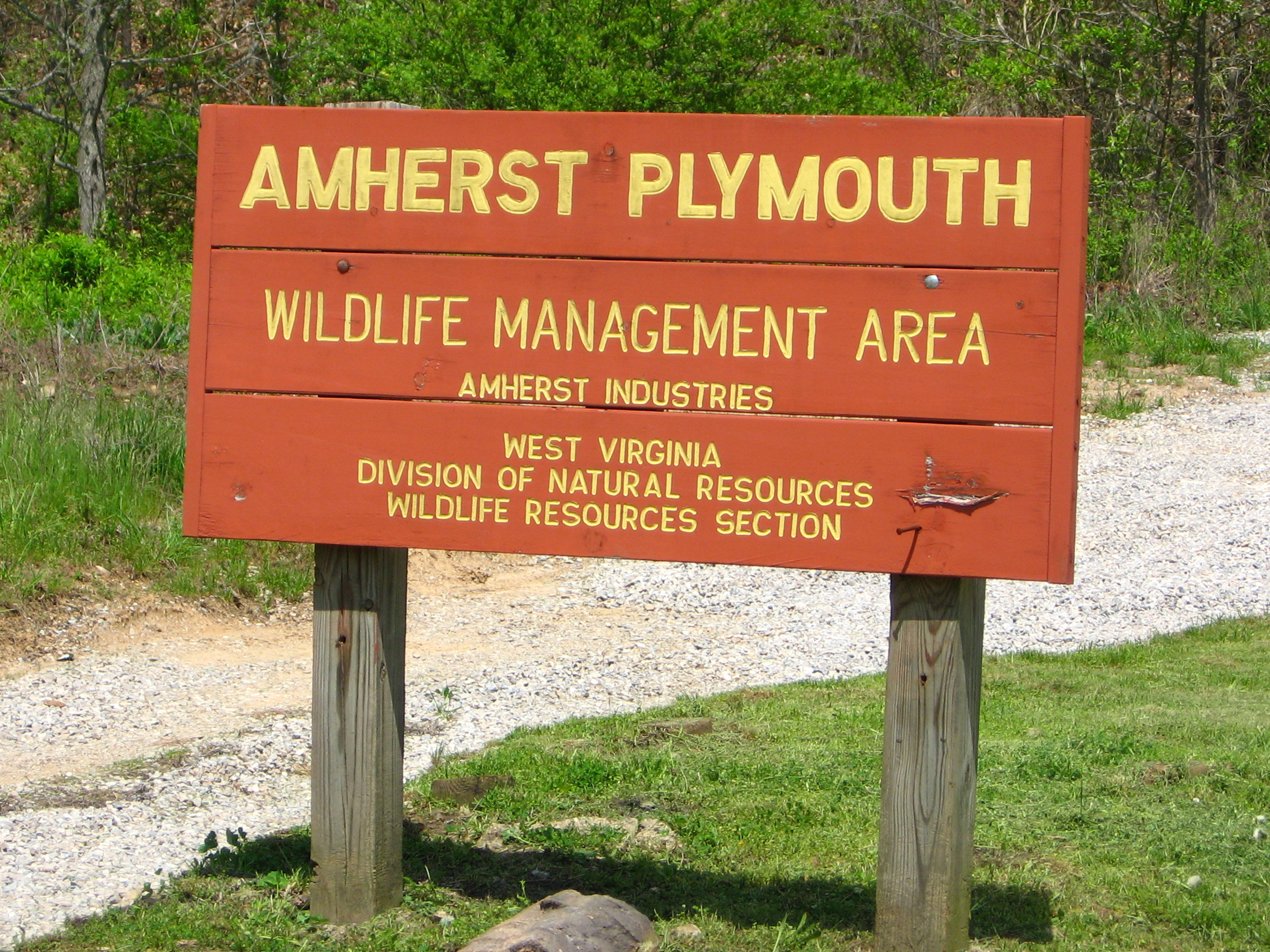 Photo of the sign for the Amherst/Plymouth Wildlife Management Area in Plymouth, Putnam County, West Virginia